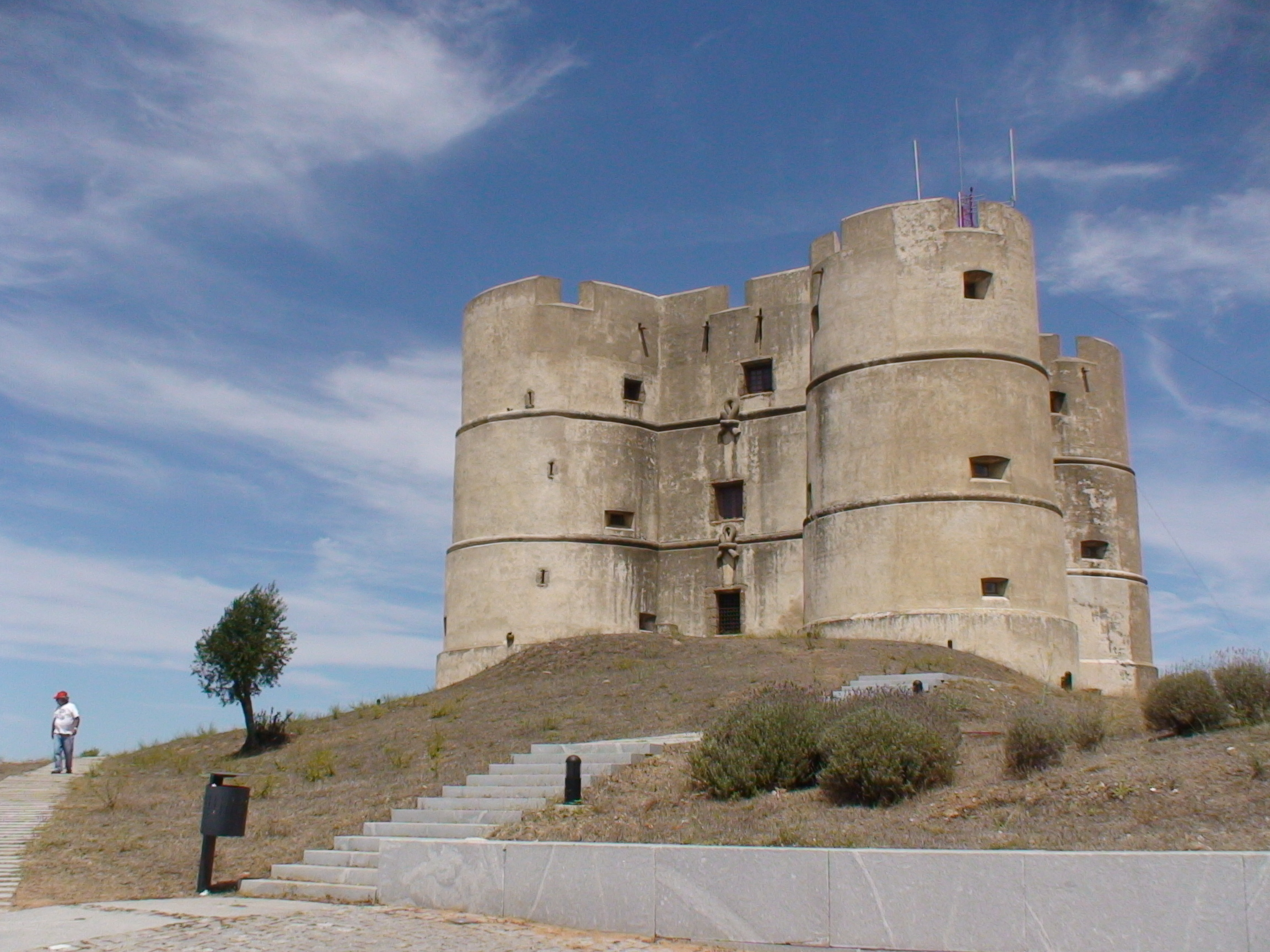 Castle of Evoramonte. Evoramonte, Estremoz, Portugal.